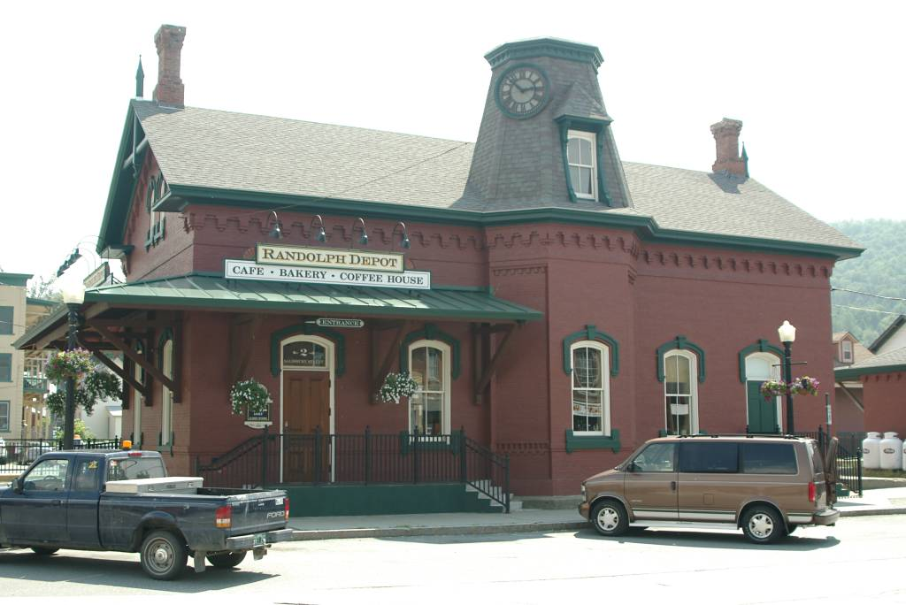 Railroad Depot Randolph, Vermont, USA Source: Photograph taken by M.S.Maguire Copyright: ©2006 M.S.Maguire